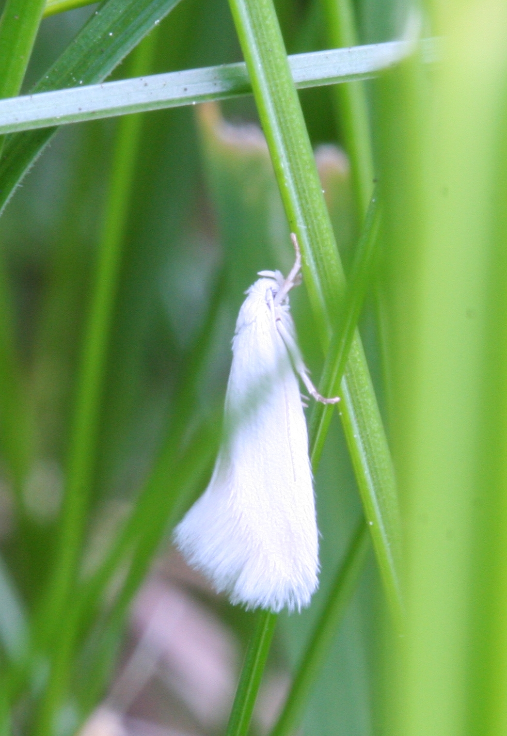 Elachista argentella 7 Juni 2006 IJmuiden, the Netherlands